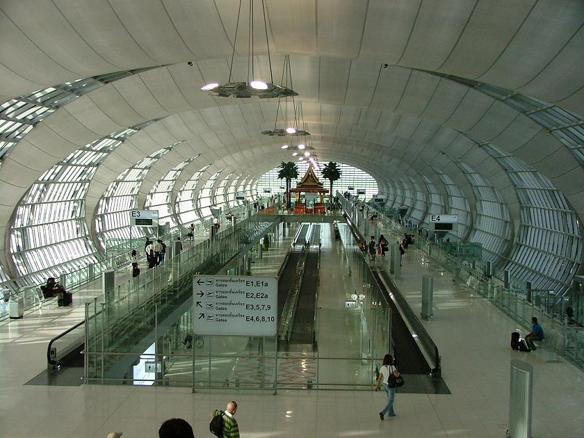 Suvarnabhumi Airport - Bangkok.